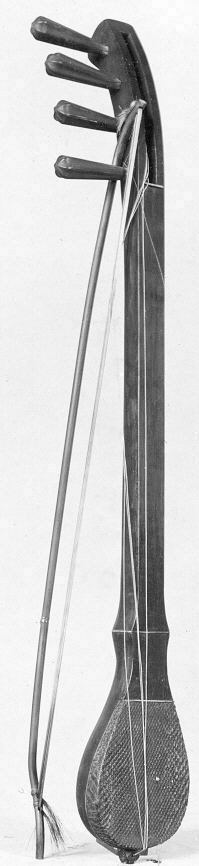 Huobosi in the Met Museum, USA. Public Domain.